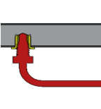 Griddle commercial test of solid state